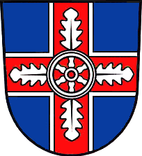 Coat of Arms of Hohes Kreuz